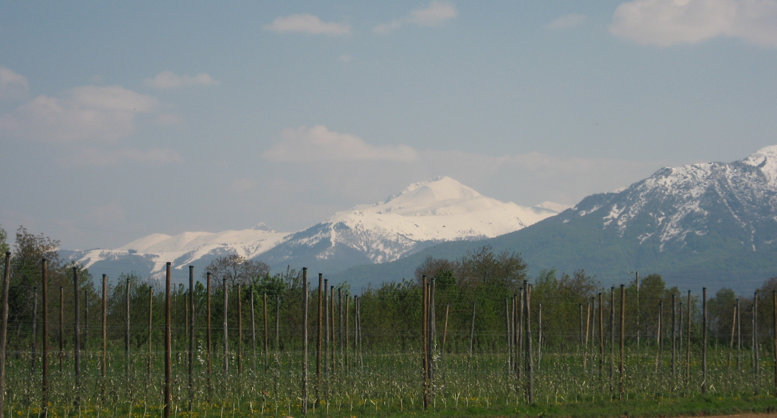 View of Mount Mondolè, Province of Cuneo, Italy